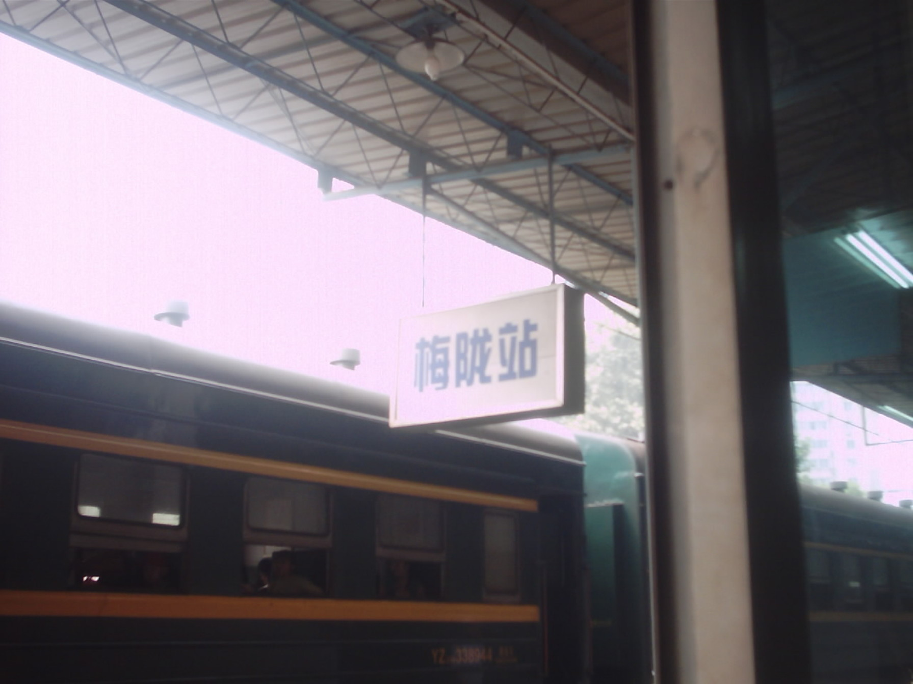 Meilong railway station